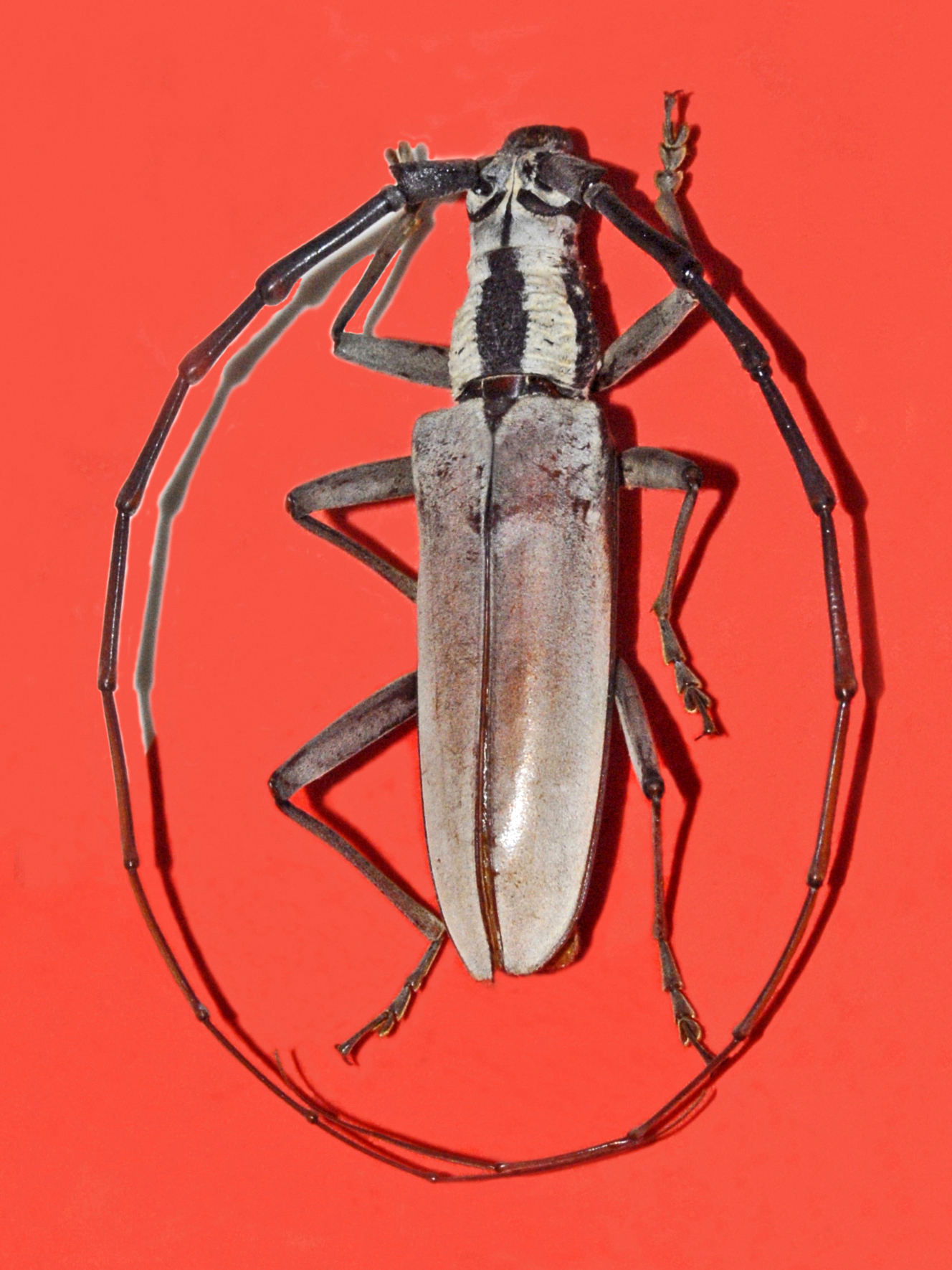 Museum specimen of Massicus pascoei. On display at the Museo Civico di Storia Naturale di Milano